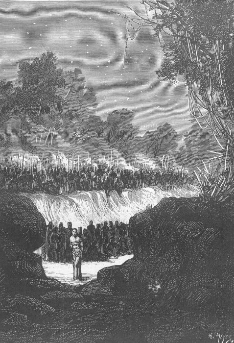 An ilustration from "Dick Sand, A Captain at Fifteen" by Jules Verne painted by Henri Meyer.